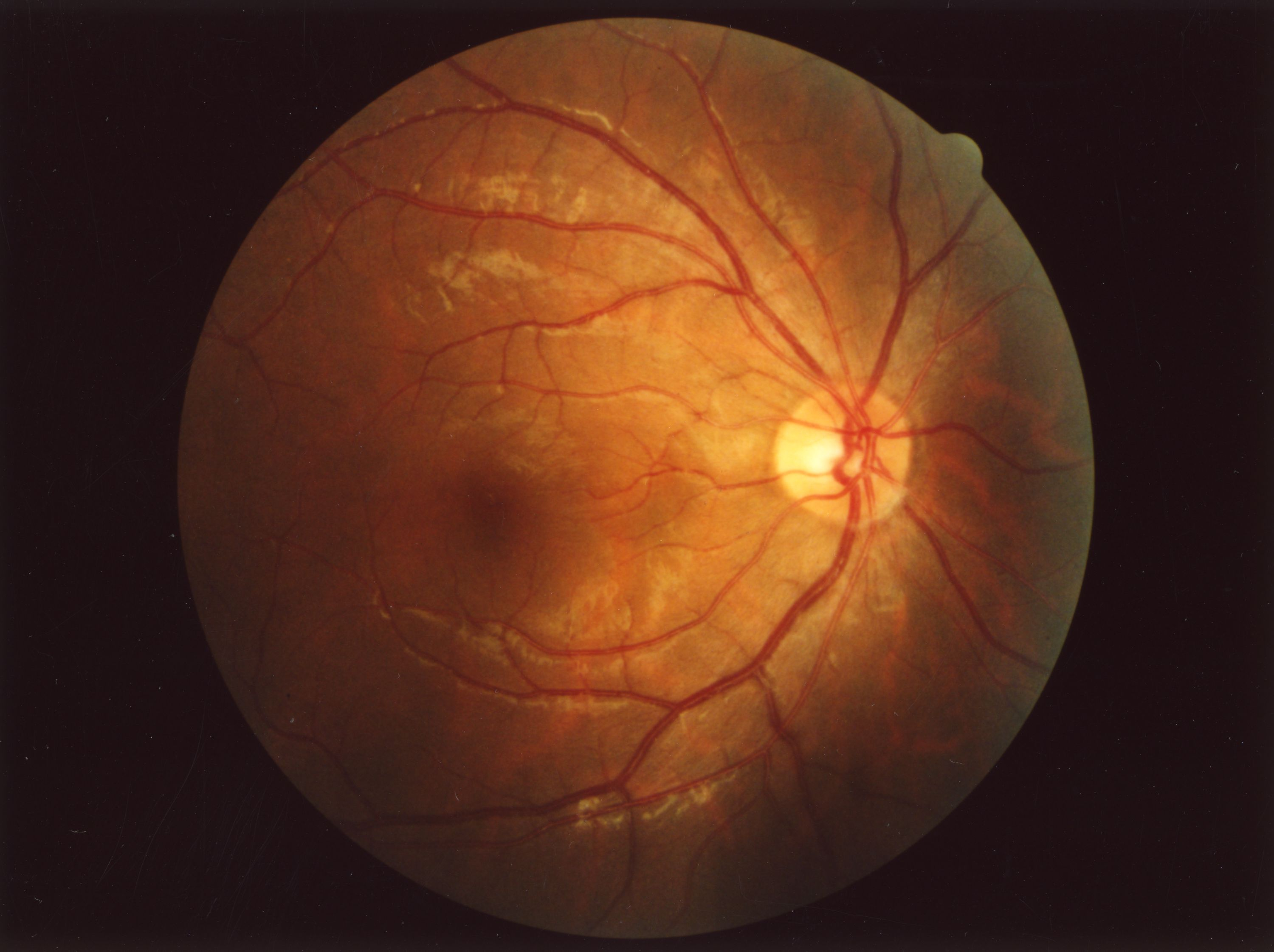 An opthalmogram, an image of the fundus of an eye, of a healthy human male